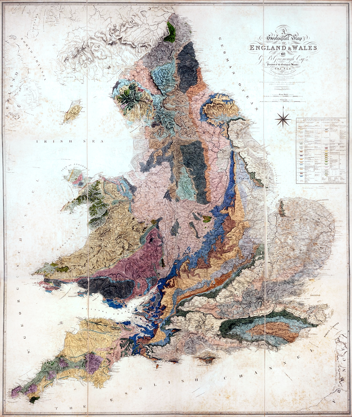 Geological Map of England and Wales, dated as 1st November 1819 on the map, published 1st May, 1820.